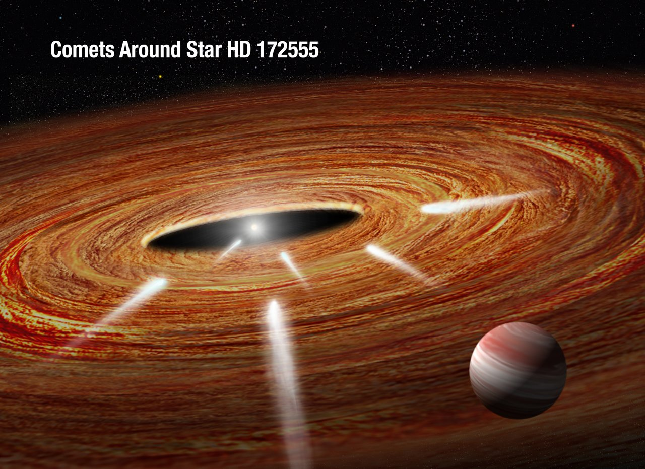 This artist’s impression shows several comets speeding across a vast protoplanetary disc of gas and dust and heading straight for the youthful, central star of the system. These "kamikaze" comets will eventually plunge into the star and vaporize. The comets are too small to be imaged, but their gaseous spectral "fingerprints" on the star's light were detected with the NASA/ESA Hubble Space Telescope. The gravitational influence of a suspected Jupiter-sized planet in the foreground may have catapulted the comets into the star. This star, called HD 172555, represents the third extrasolar system where astronomers have detected doomed, wayward comets. The star resides 95 light-years from Earth.